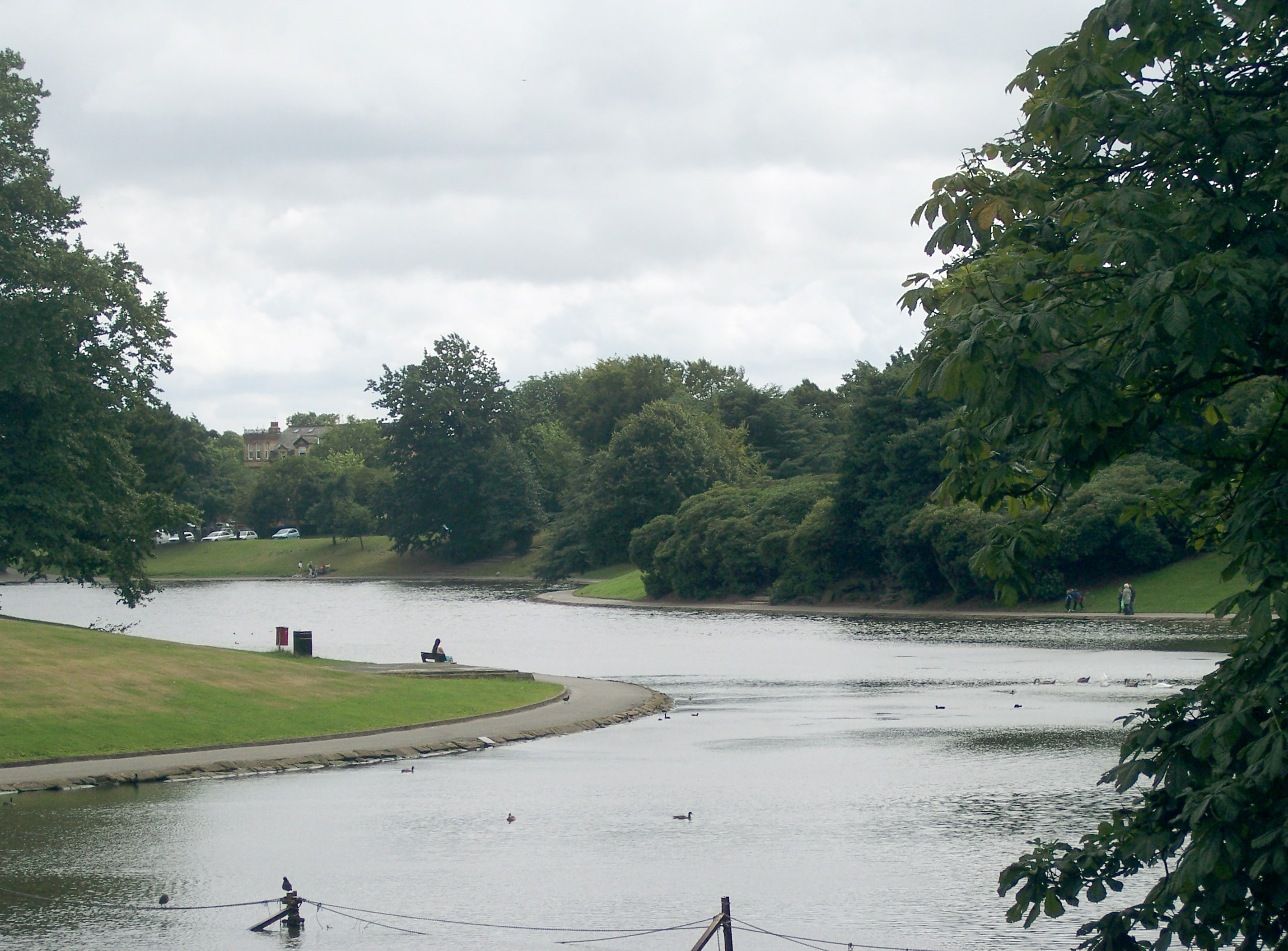 View of Sefton Park by Rob